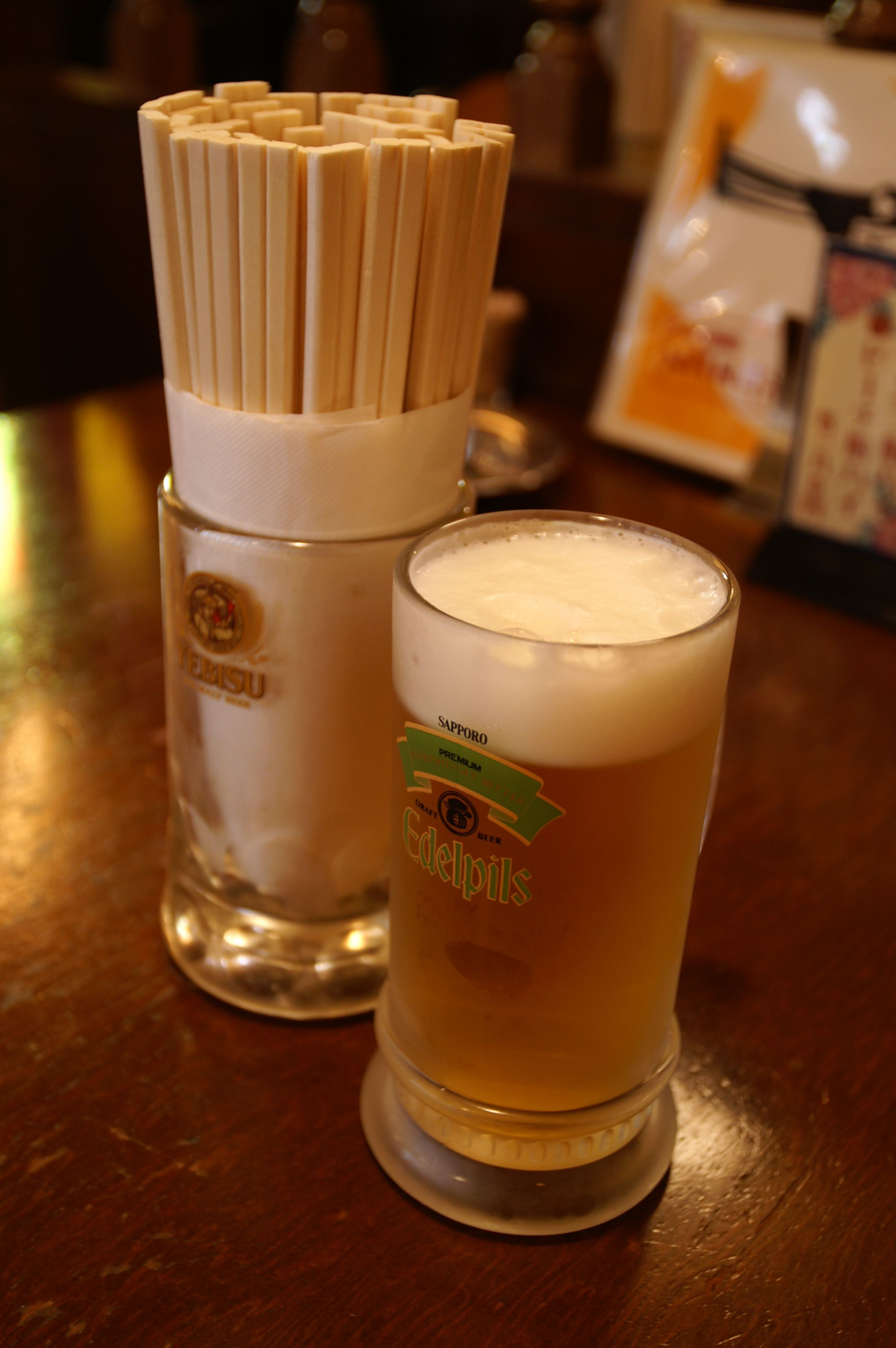 Sapporo Edelpils draught